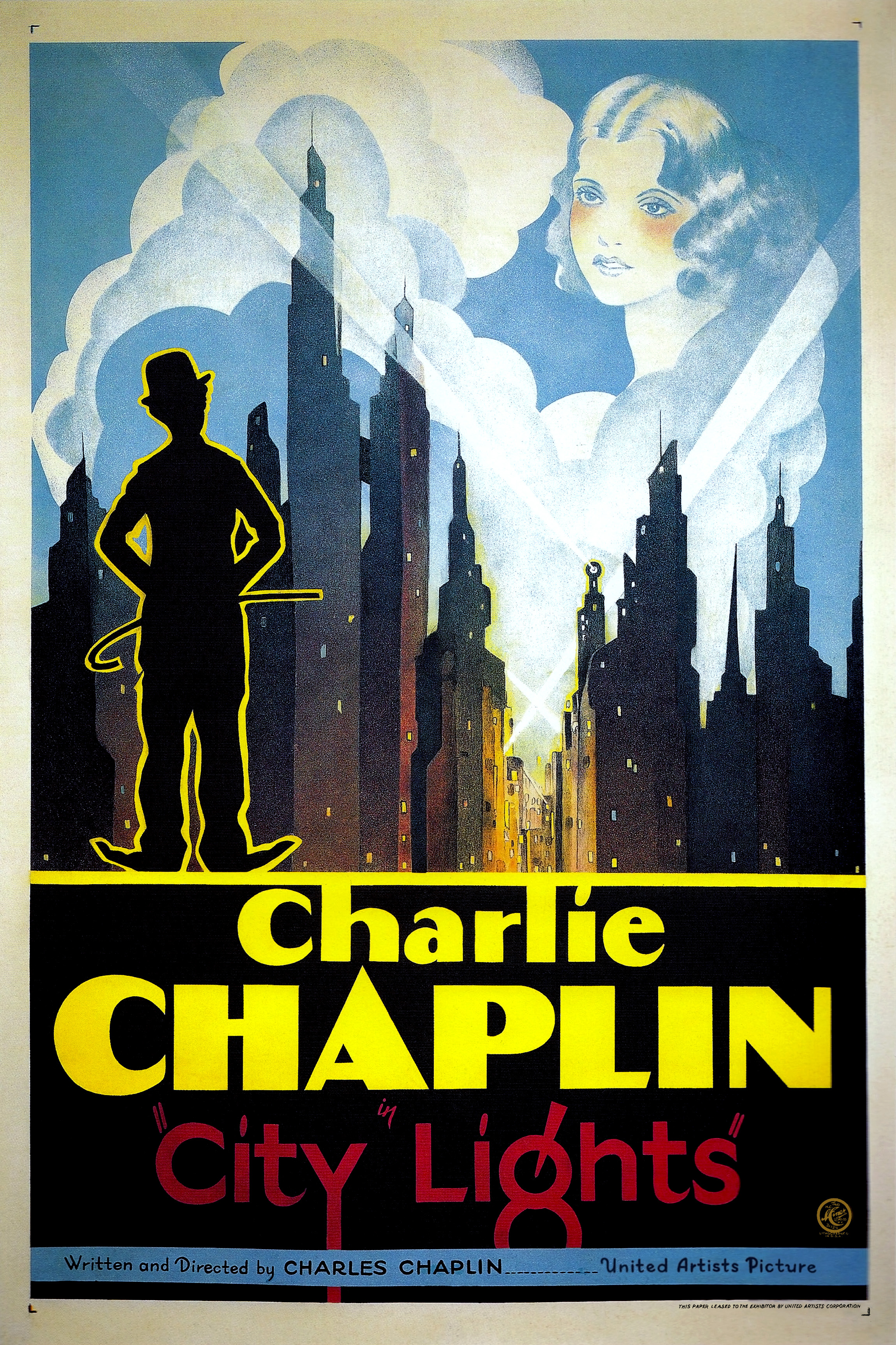 Theatrical poster for Charlie Chaplin's 1931 film City Lights. In 2003, this poster design ranked #52 on the American Film Institute's list of the "Top 100 American Movie Poster Classics" (#51–100 via the Internet Archive), part of its 100 Years... series. More on the Top 100 American Movie Posters series at and .